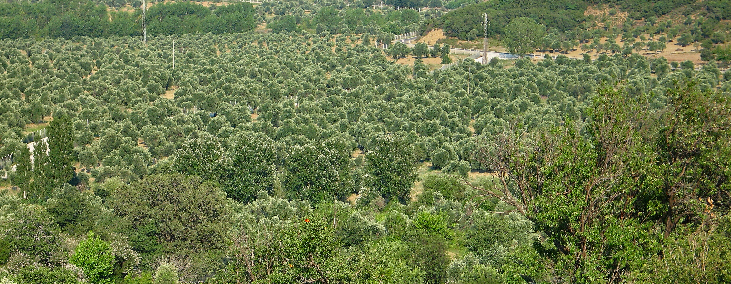 Olive Trees, Zeytinli Village, Gokceada